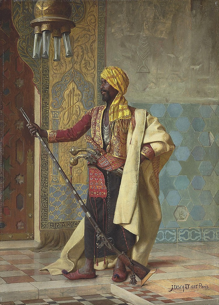 The harem guard